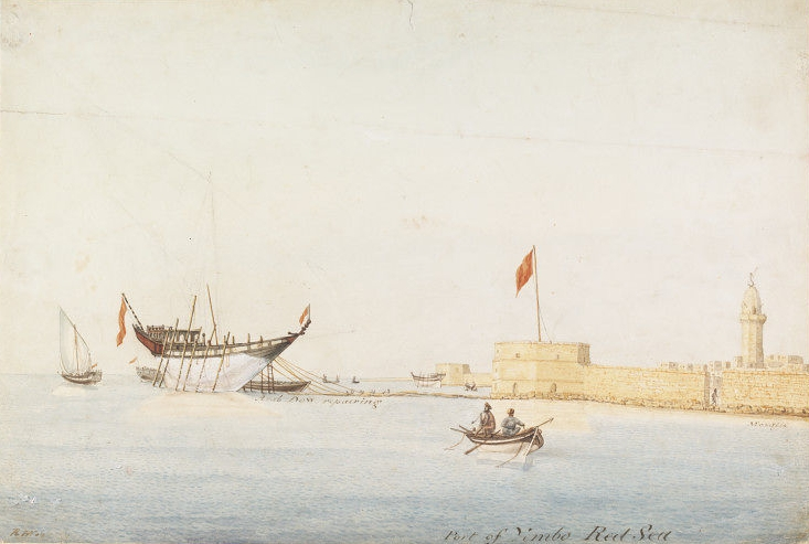 Watercolour painting of the port of Yembo (Yanbu, Saudi-Arabia), painted during the survey of the Red Sea (1829-1834)